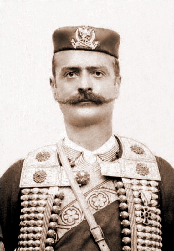 Mitar Martinovich